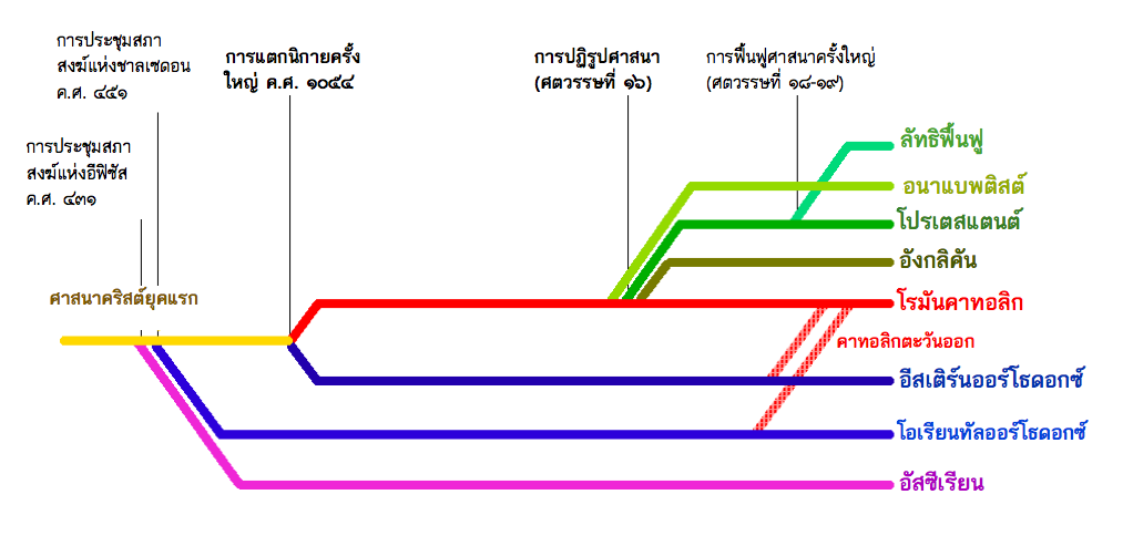 branches of Christianity in Thai